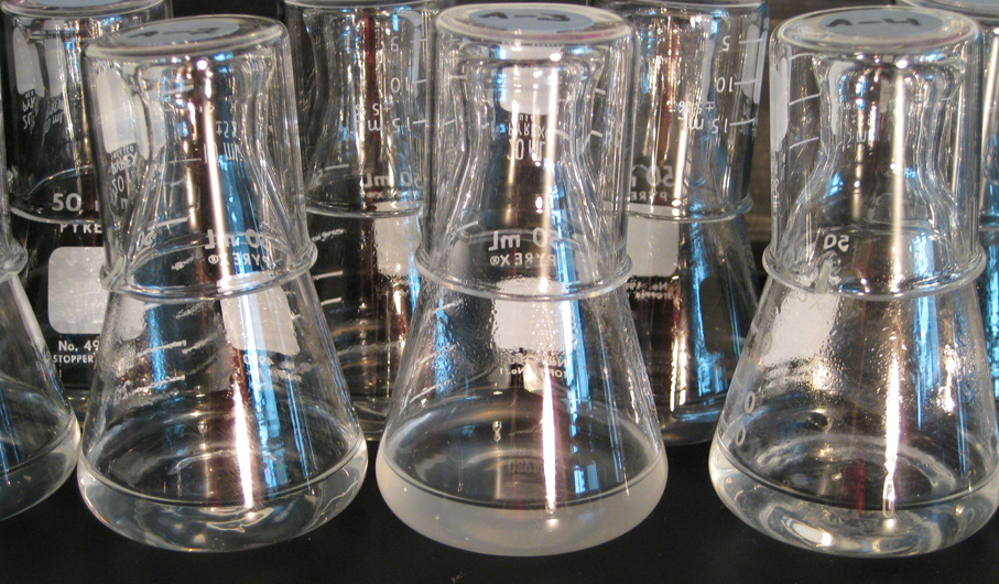 A close-up view showing the Ara-3 population and two others from Richard Lenski's long-term evolution experiment with E. coli. The middle Ara-3 population is more turbid because it evolved the capacity to use the citrate in the DM25 liquid medium.